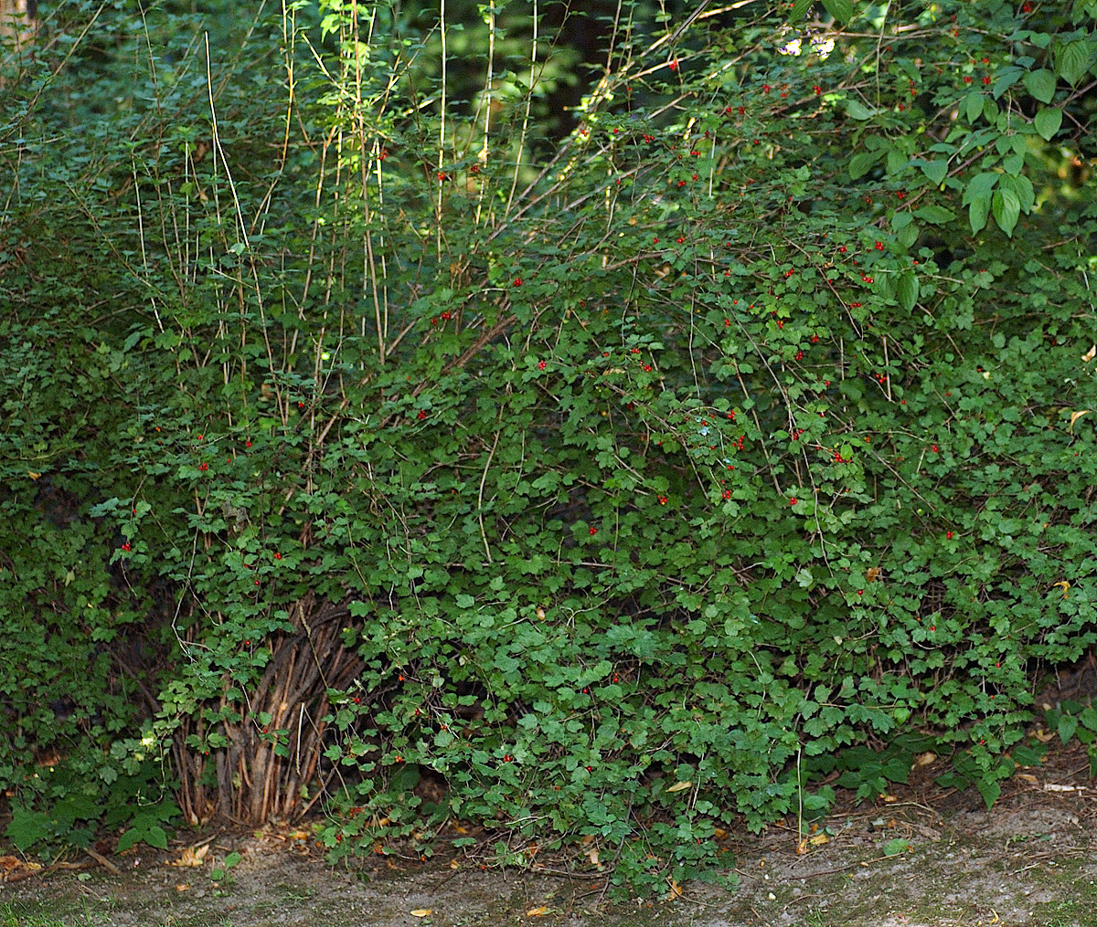 This image shows a Alpine currant bush (Ribes alpinum). Thanks to Franz Xaver for identifying this plant.